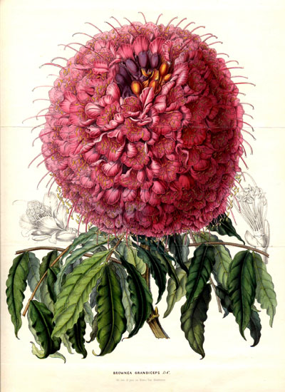 Coloured lithograph of Brownea grandiceps